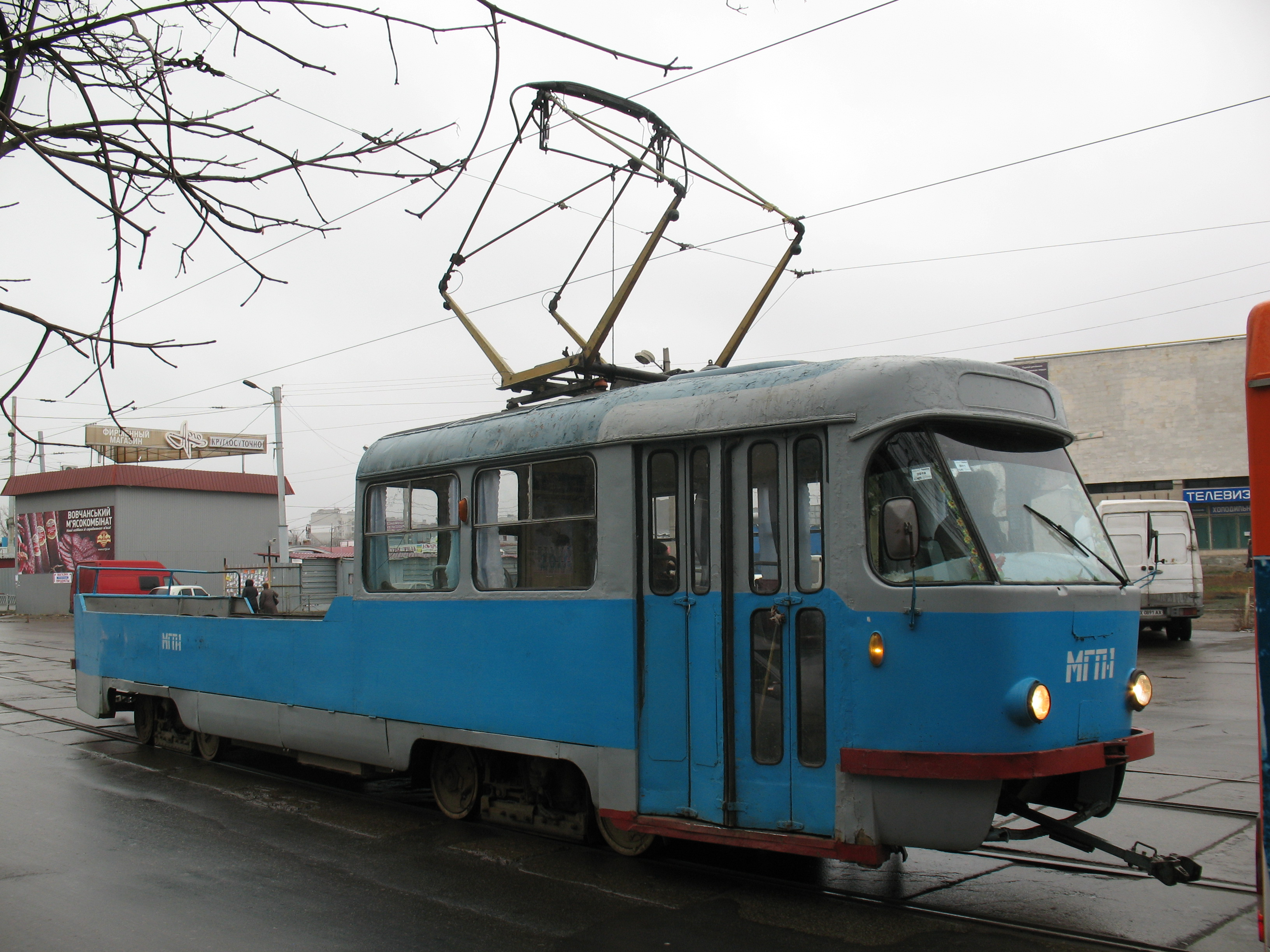 Kharkov City. Tram MGP-1 on Konnyi Bazar.